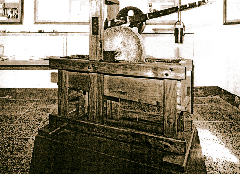 A photo of the original F.G. Keller wood grinding (wood-cut) machine (used for pulping wood for paper making).